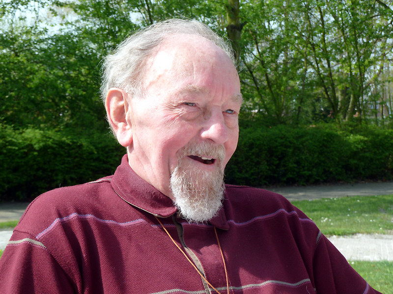 Father Renaet De Ceulaer, missionary SCJ